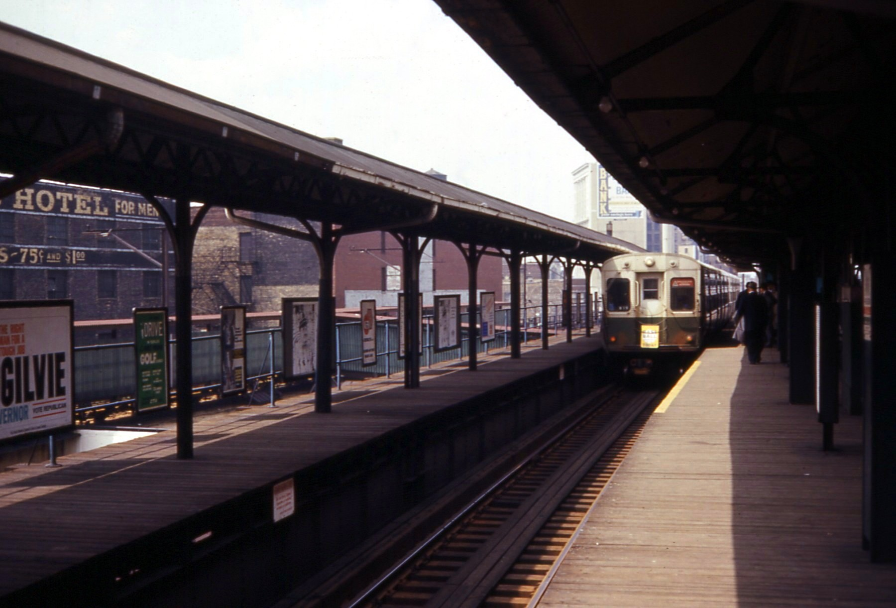 19680601 20 CTA Rapid Transit @ Wilson Ave.